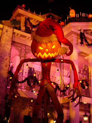 A statue of the Pumpkin King outside of Disneyland's Haunted Mansion during the "Haunted Mansion Holiday" overlay in 2004. (Anaheim, California, USA.) Imperpay 13:40, 24 September 2007 (UTC)